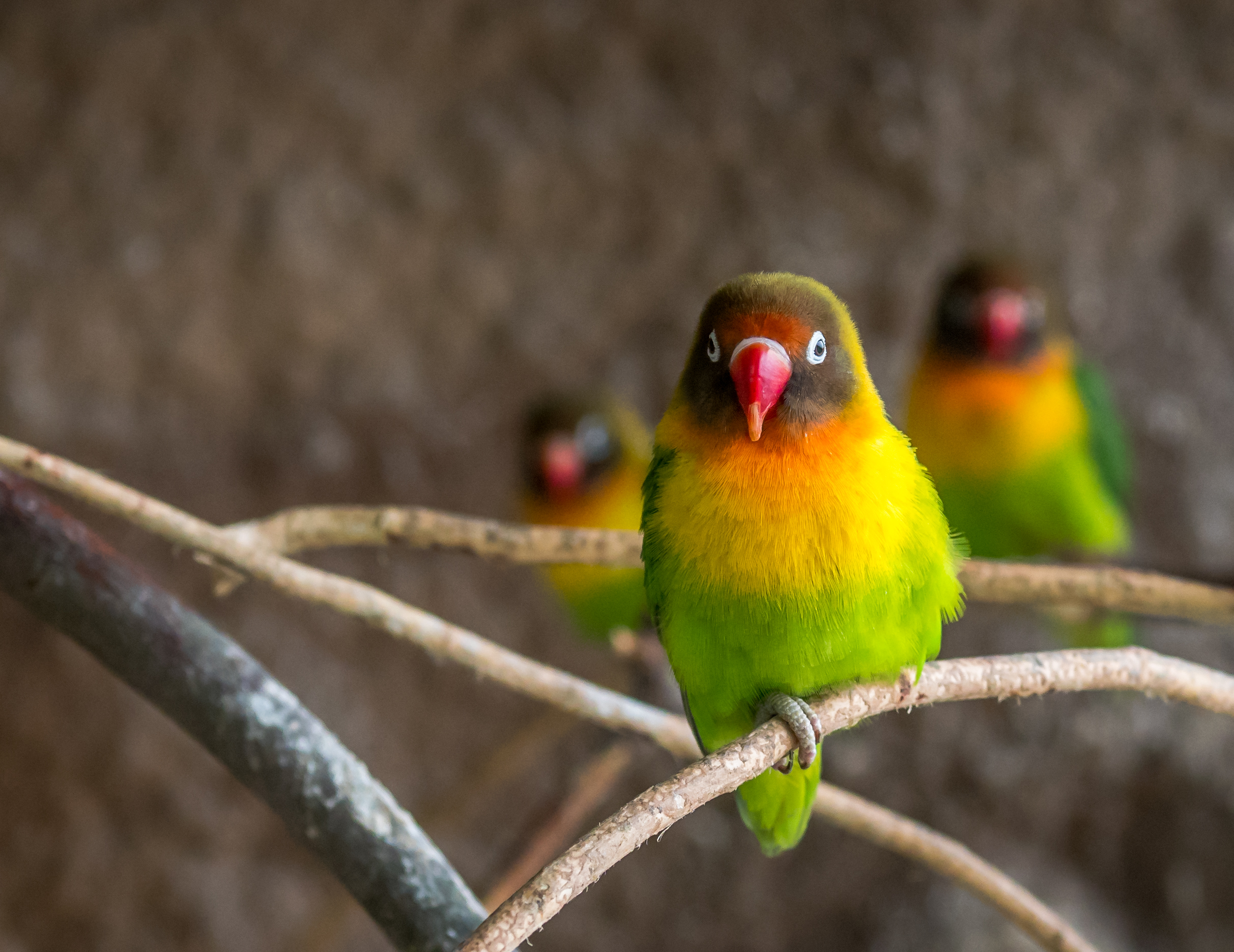 Yellow-collared lovebird (Agapornis personatus) in the zoo of Osnabrück, Germany